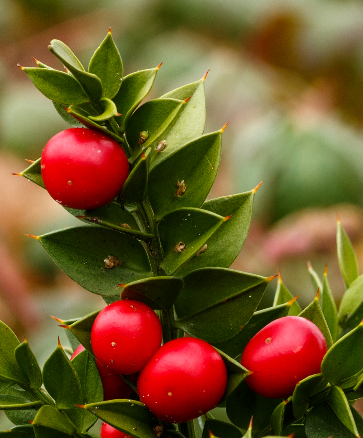 Ruscus aculeatus' John Redmond. Few offered very slow growing shrub.